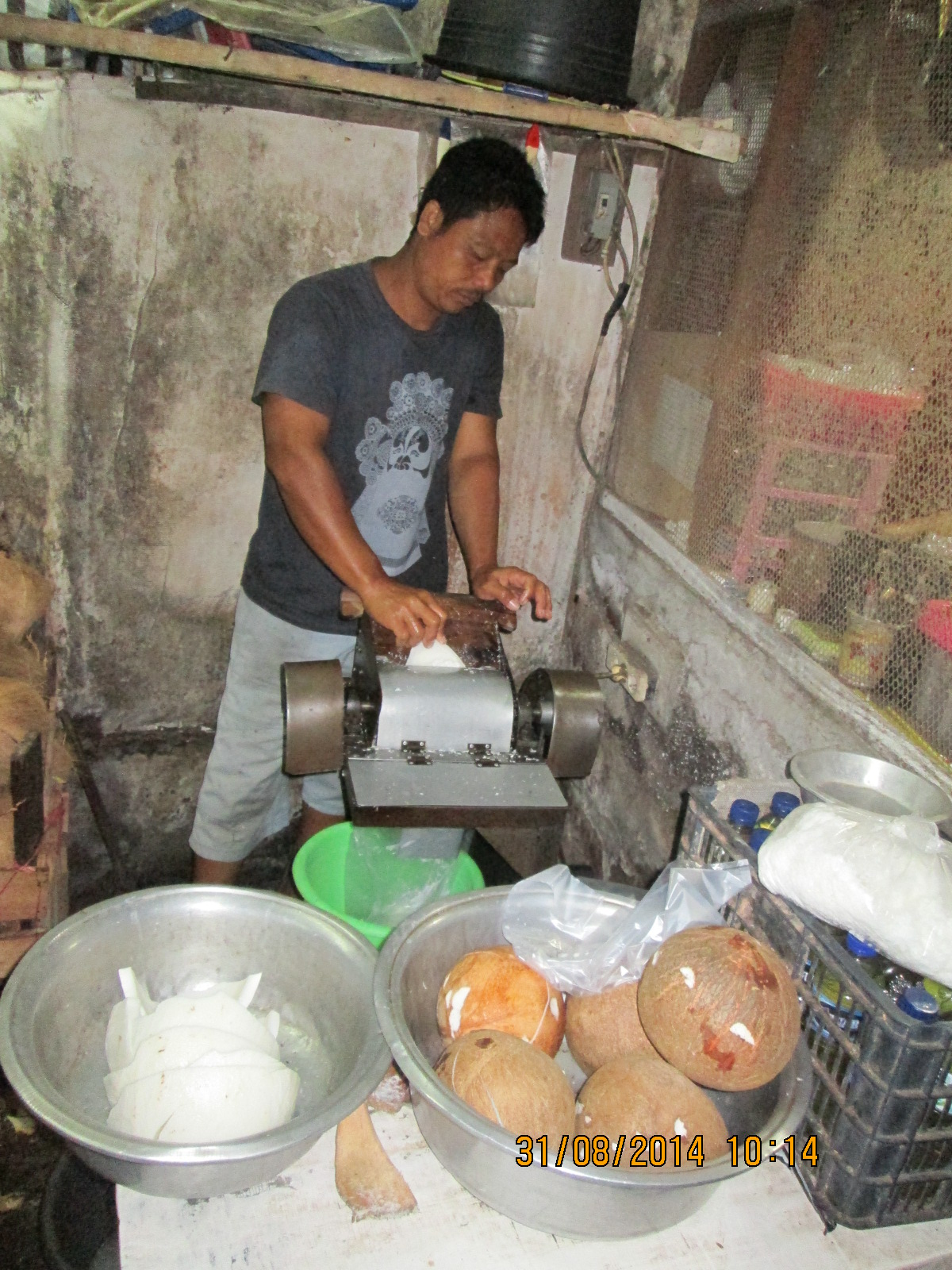 Bali produces one of the World's largest coconuts and the same is used for "Copra " production in Denpasar Market.